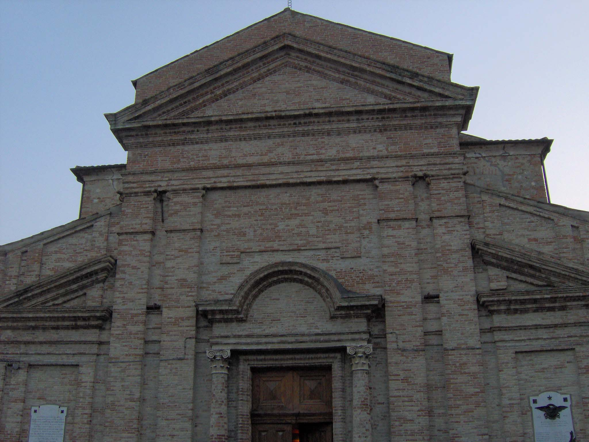 Part of the Façade of Santa Maria del Soccorso Church in Picciano. I am the author and the sources are my camera and my Pc.